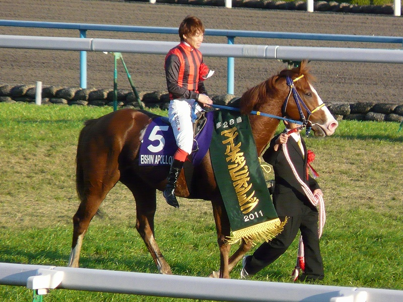 Eishin-Apollon20111120